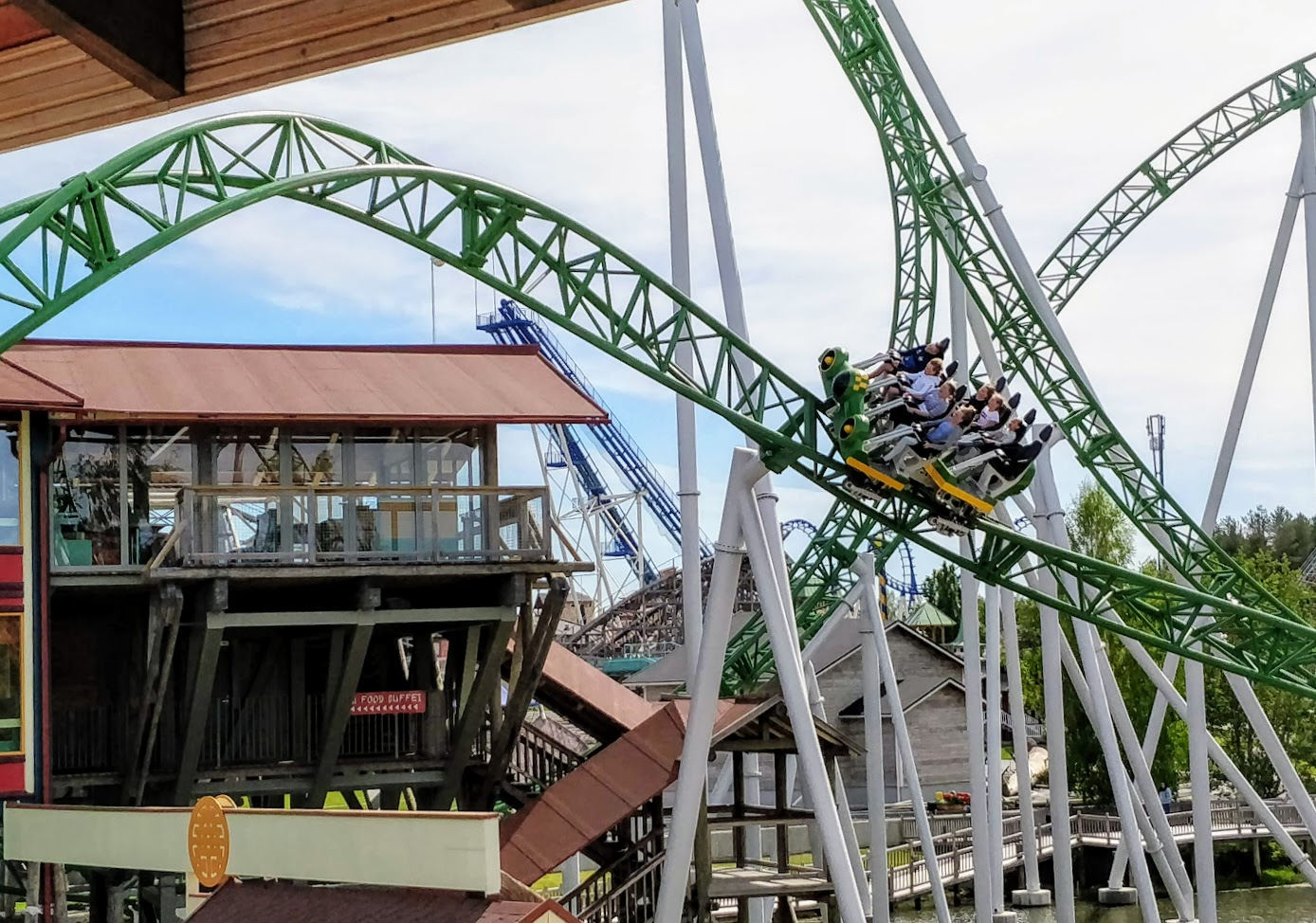 An image of the roller coaster Junker, located at PowerPark in Finland.